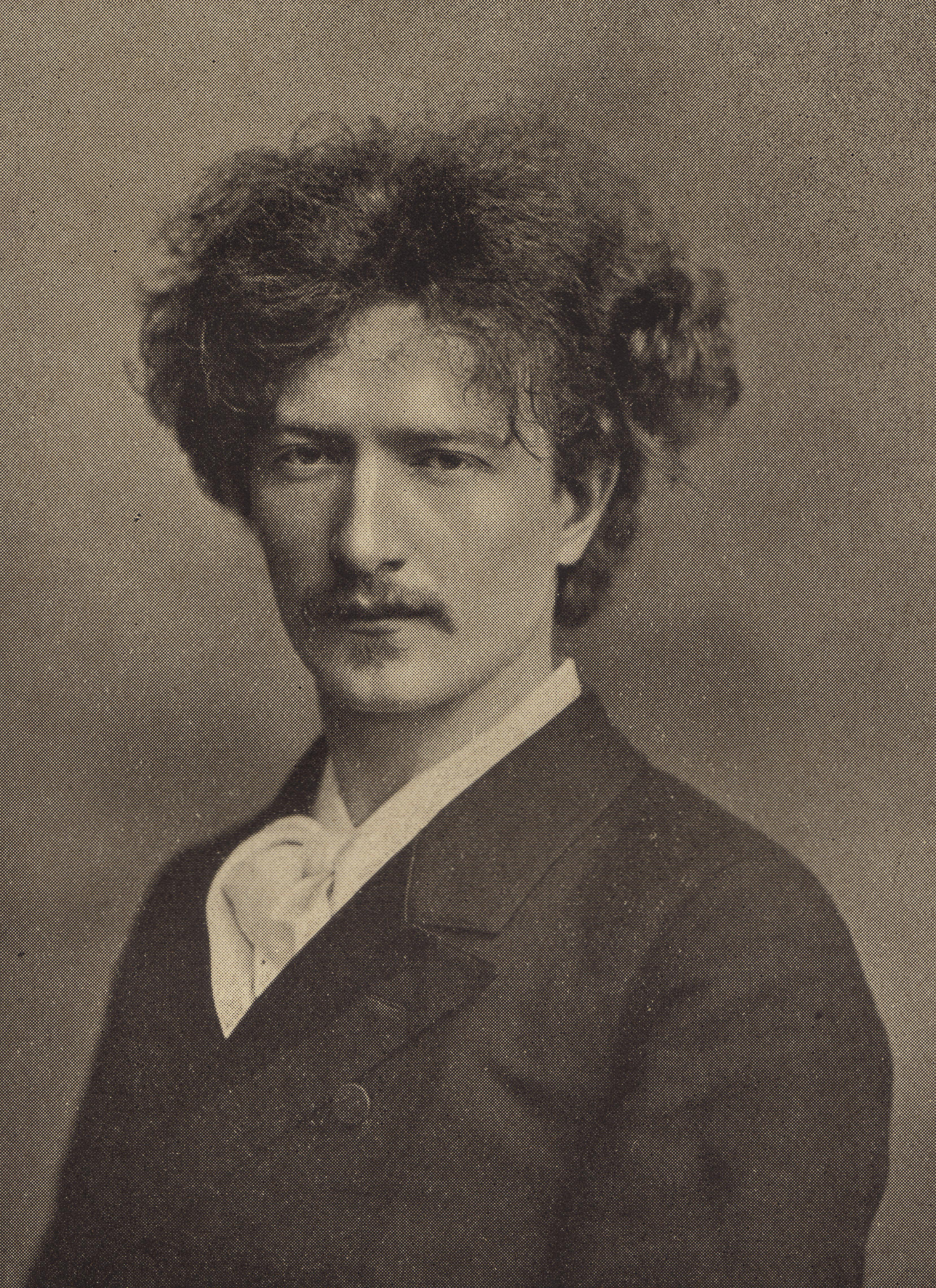 Scanned from Modern Musicians by J. Cuthbert Hadden (First published by T.N.Foulis in 1913) - September 1918 Foulis reprint. Book is in the Public Domain in the US and UK. Scanned as 1200 dpi bitmap (photo) then converted to jpeg.